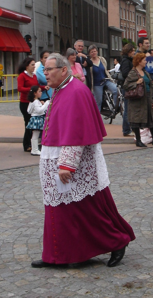 The former Bishop of Brugge in Choir dress